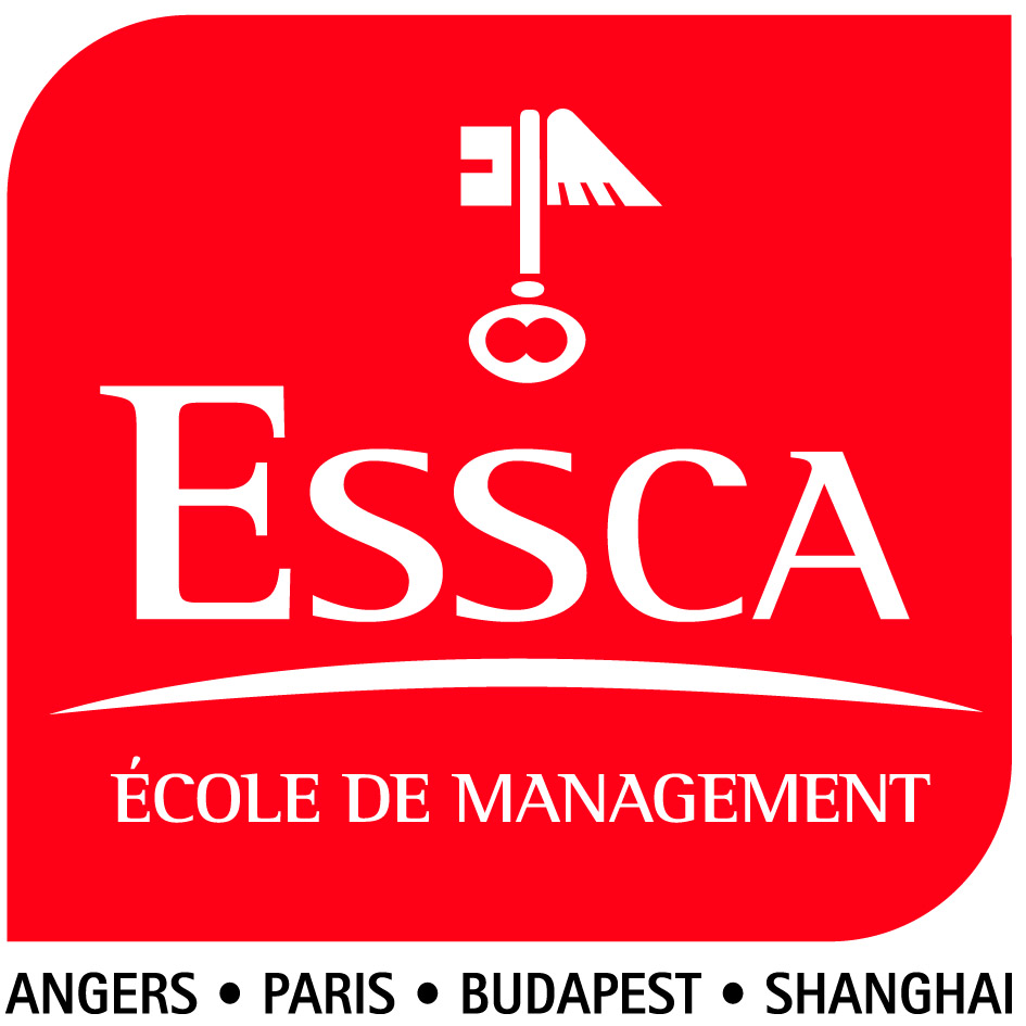 Logo ESSCA